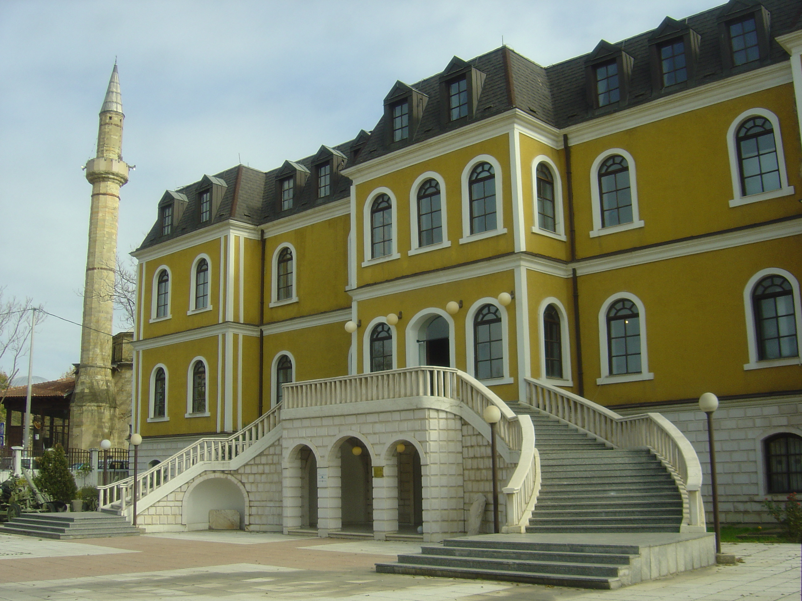 Kosovo Museum in Pristina